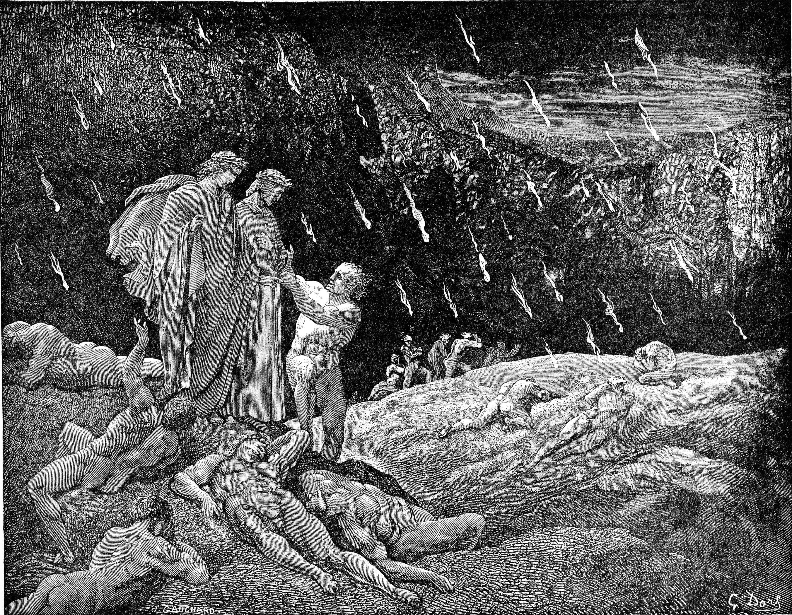 High resolution scan of engraving by Gustave Doré illustrating Canto XV of Divine Comedy, Inferno, by Dante Alighieri. Caption: Brunetto Latini accosts Dante